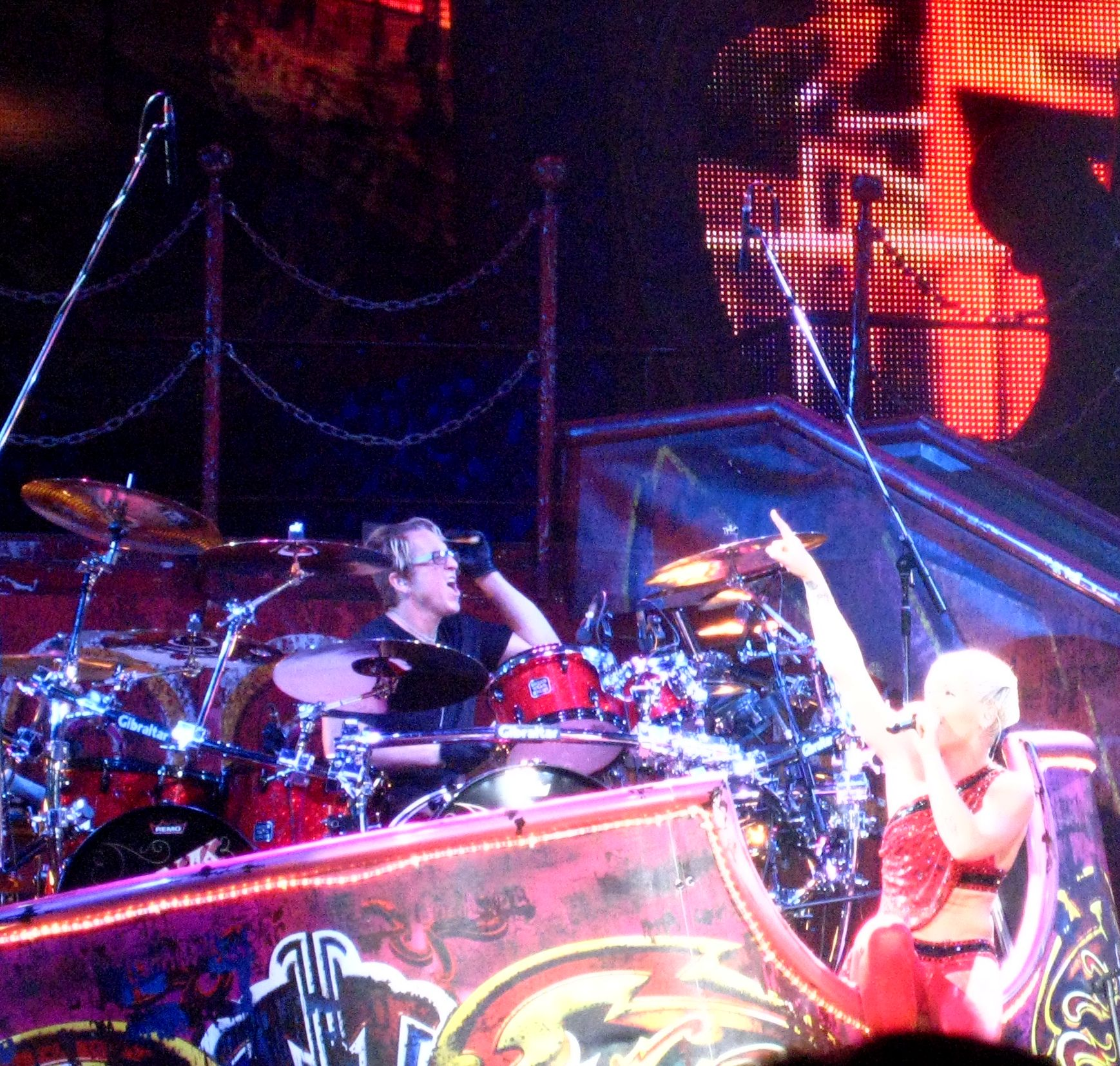 P!nk performing "Just Like a Pill"